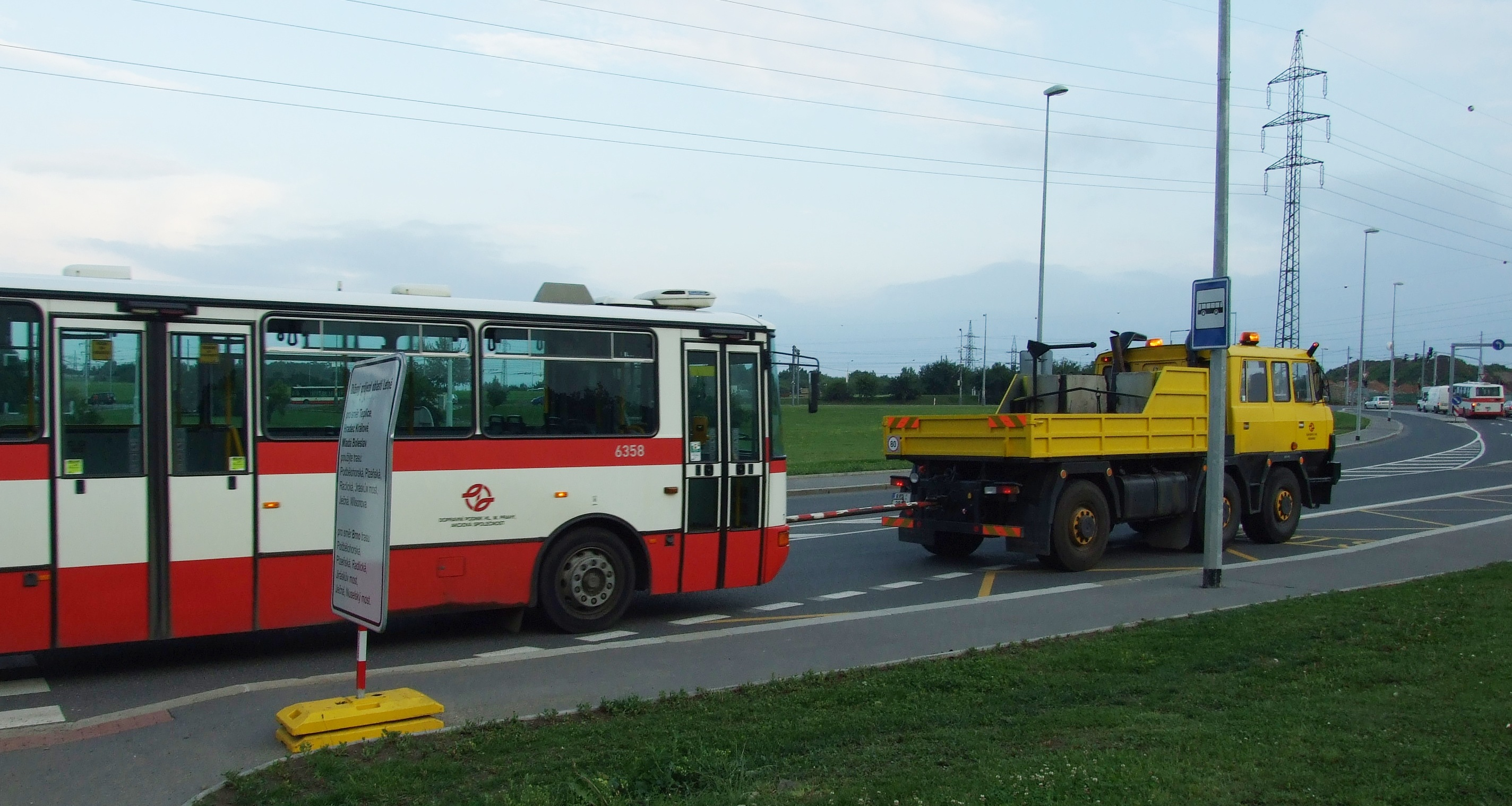 Malfuncted bus is being pulled back to garages, Prague, CZ